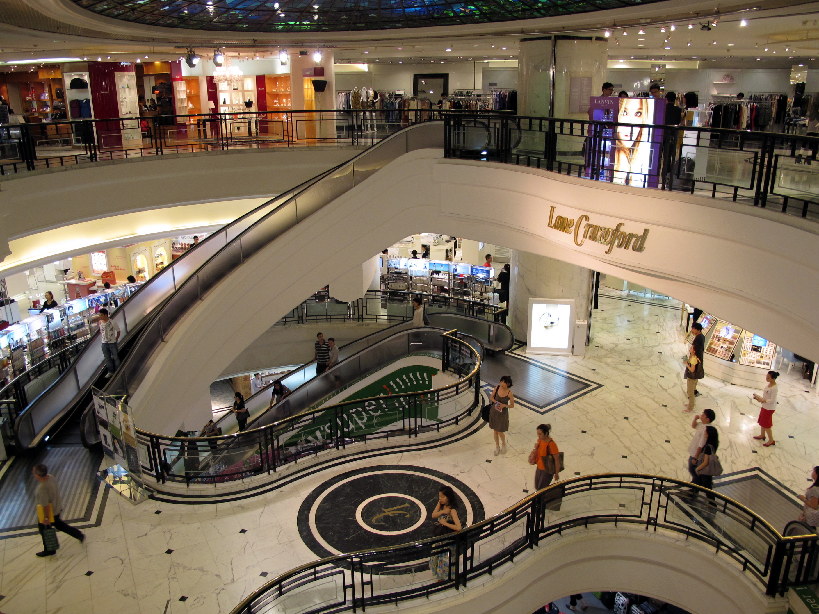 Lane Crawford Times Square Store